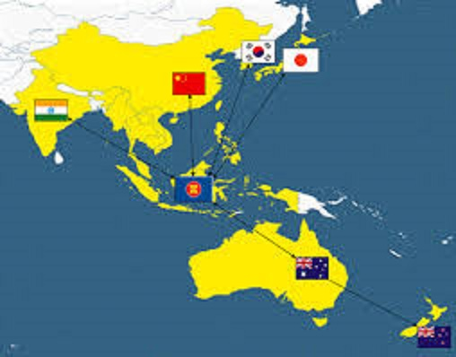 RCEP Members